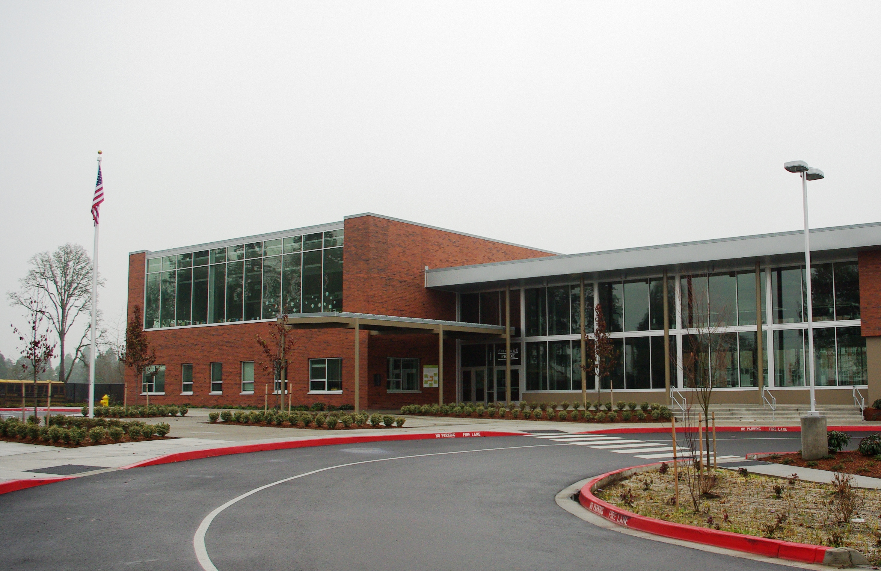 New Rosedale Elementary School, part of the Hillsboro School District in Oregon, USA.